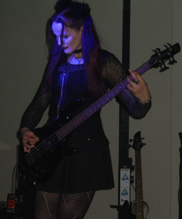 Mojca Zugna of Clan of Xymox live in Sofia.